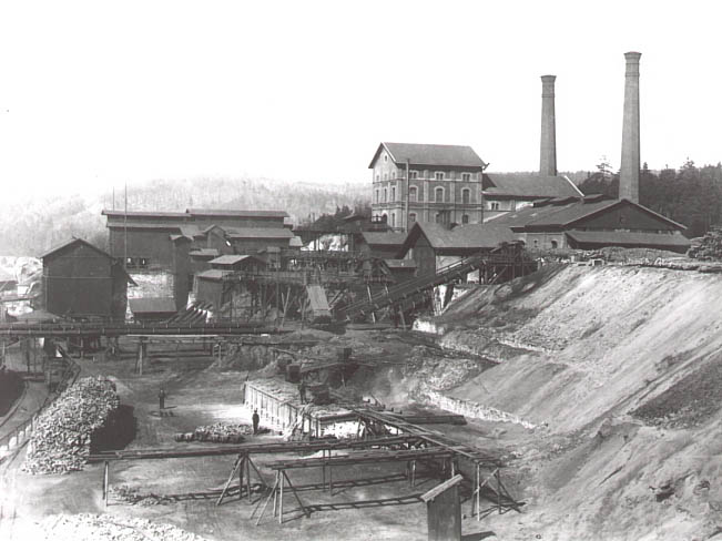 Julius Mine, Zastávka, Czech Republic